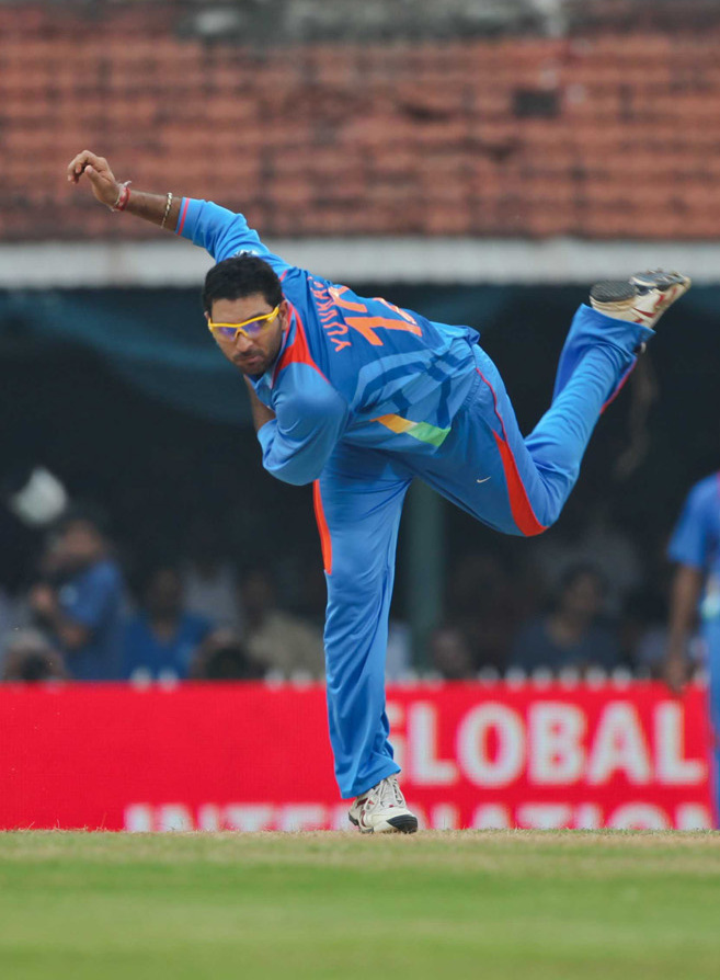 Yuvraj Singh bowling, India Vs New zealand One day International, 10 December 2010